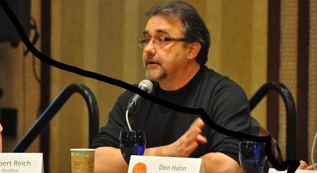 Don Hahn on the Director's panel at the Boulder International Film Festival